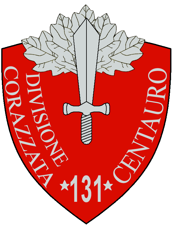 Coat of Arms of the WWII 131a Divisione Corazzata Centauro of the Italian Regio Esercito